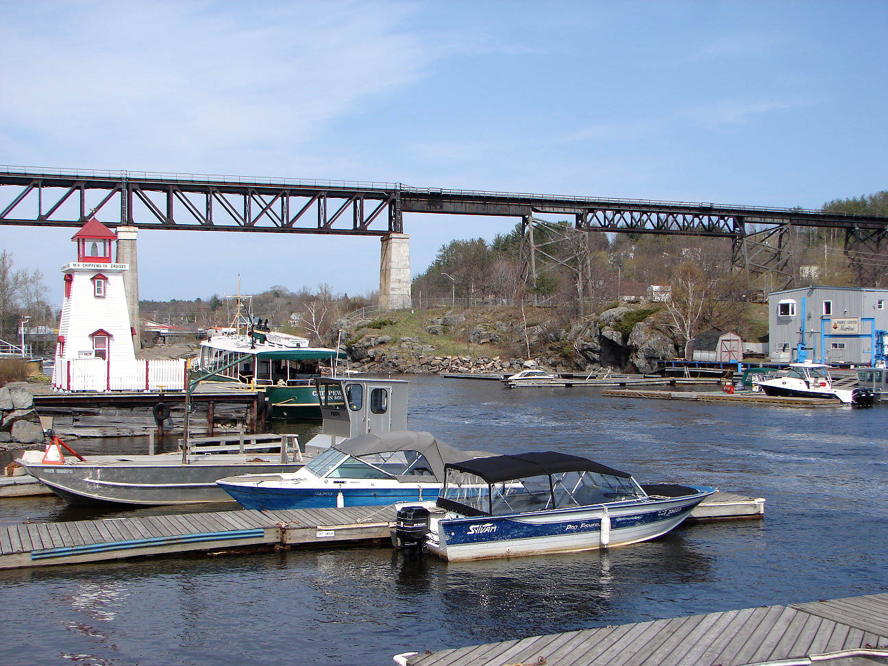 Parry Sound, Ontario, Canada